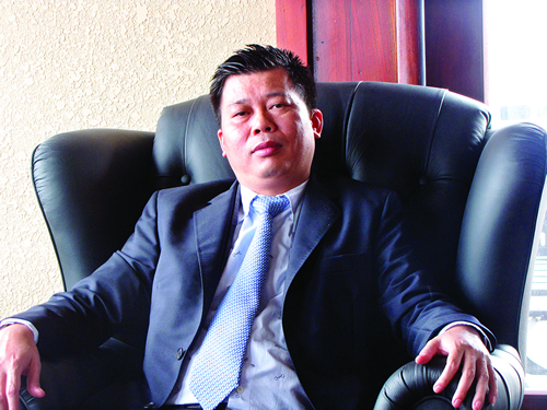 Hoang Manh Truong - President of Vissai Group